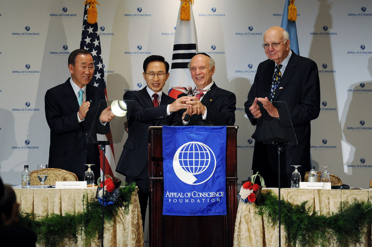 President Lee Myung-bak, second from left, receives the the World Statesman Award of the Appeal of Conscience Foundation from Founder and President Rabbi Arthur Schneier, second from right, as United Nations Secretary-General Ban Ki-moon, left, and economist Paul Volcker, right, look on during a ceremony at the Waldorf Astoria on September 21 in New York.